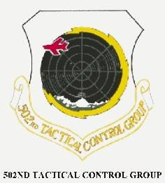 Emblem of the 502d Tactical Control Group (Korean War) Source: United States Air Force Historical Research Agency Website